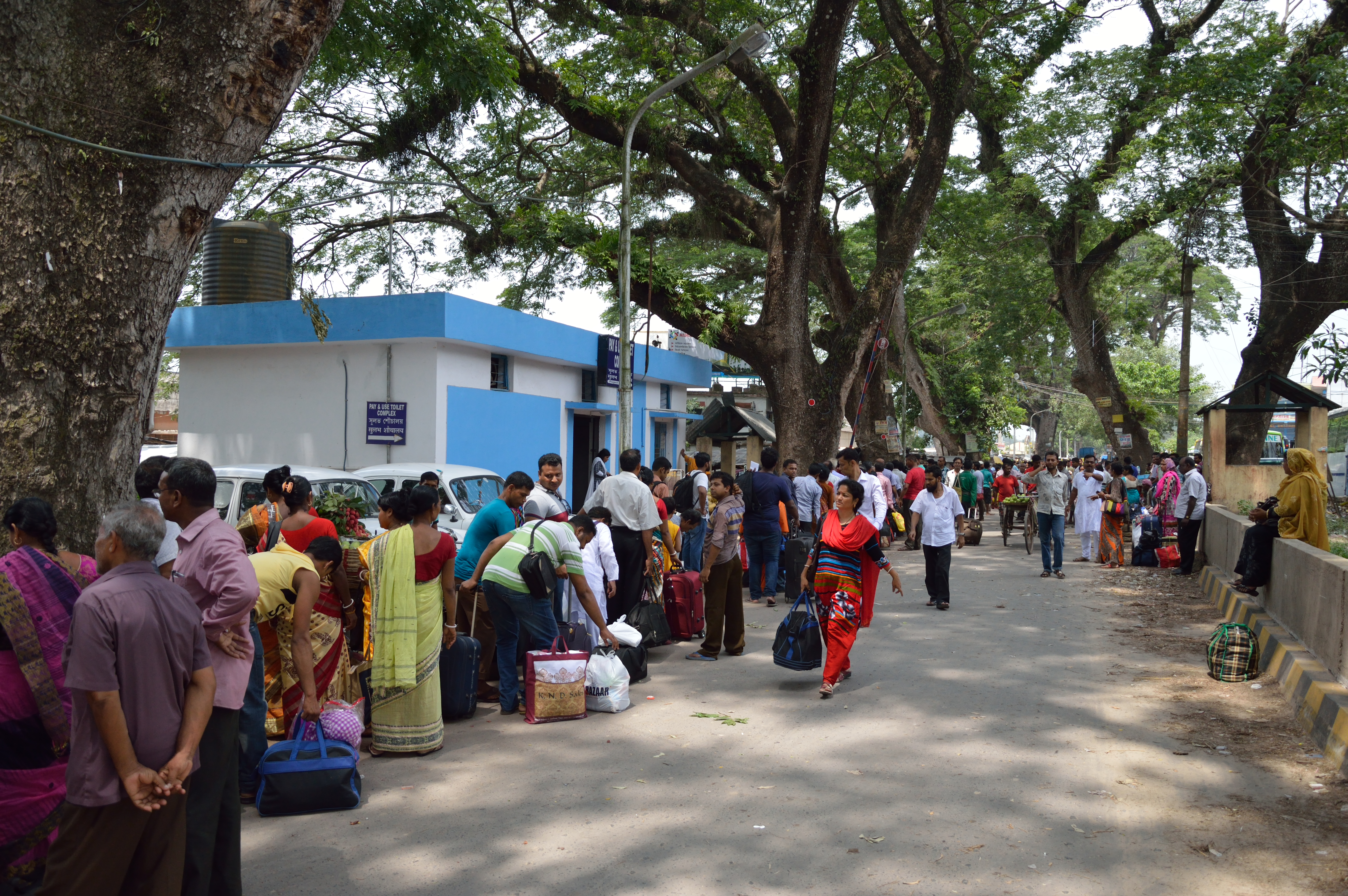 Photographed in West Bengal, India.